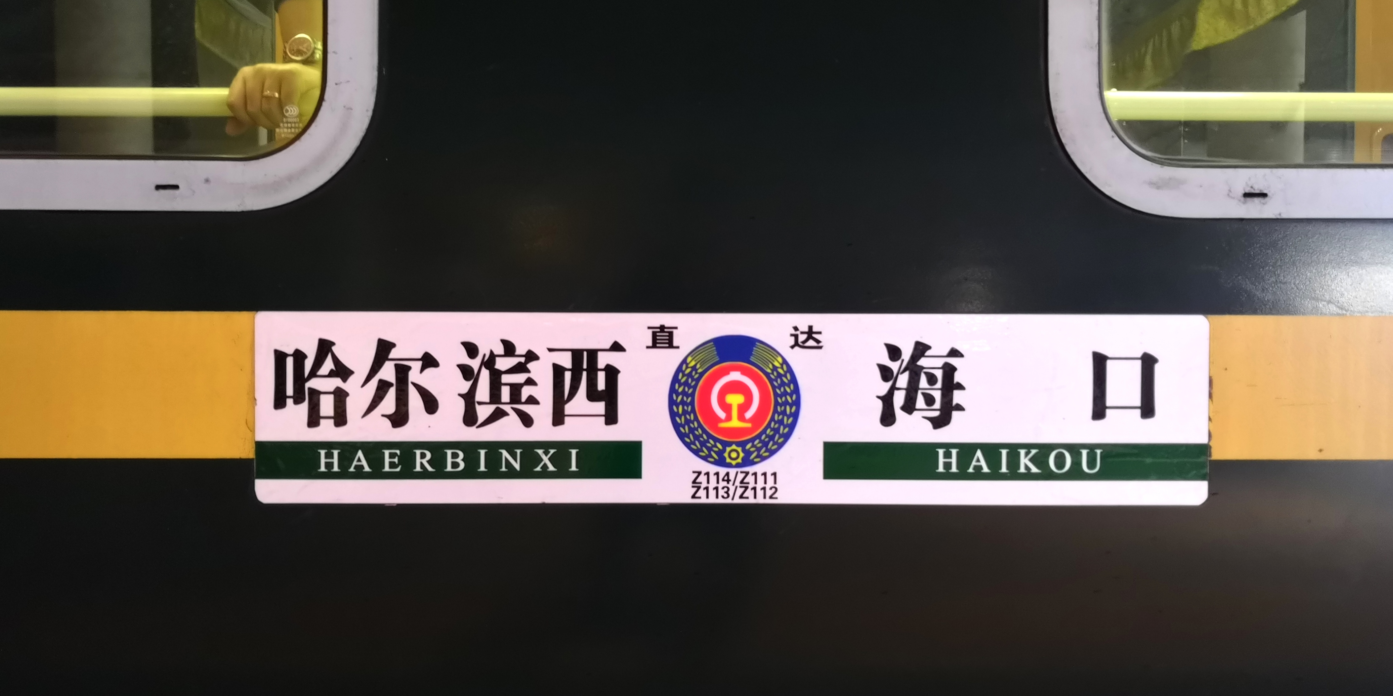 Destination plate on train Z112/Z113/Z114/Z111 from Haerbinxi (Harbin West) to Haikou. Photographed at Nanchangxi (Nanchang West) station on Feb 20, 2018.